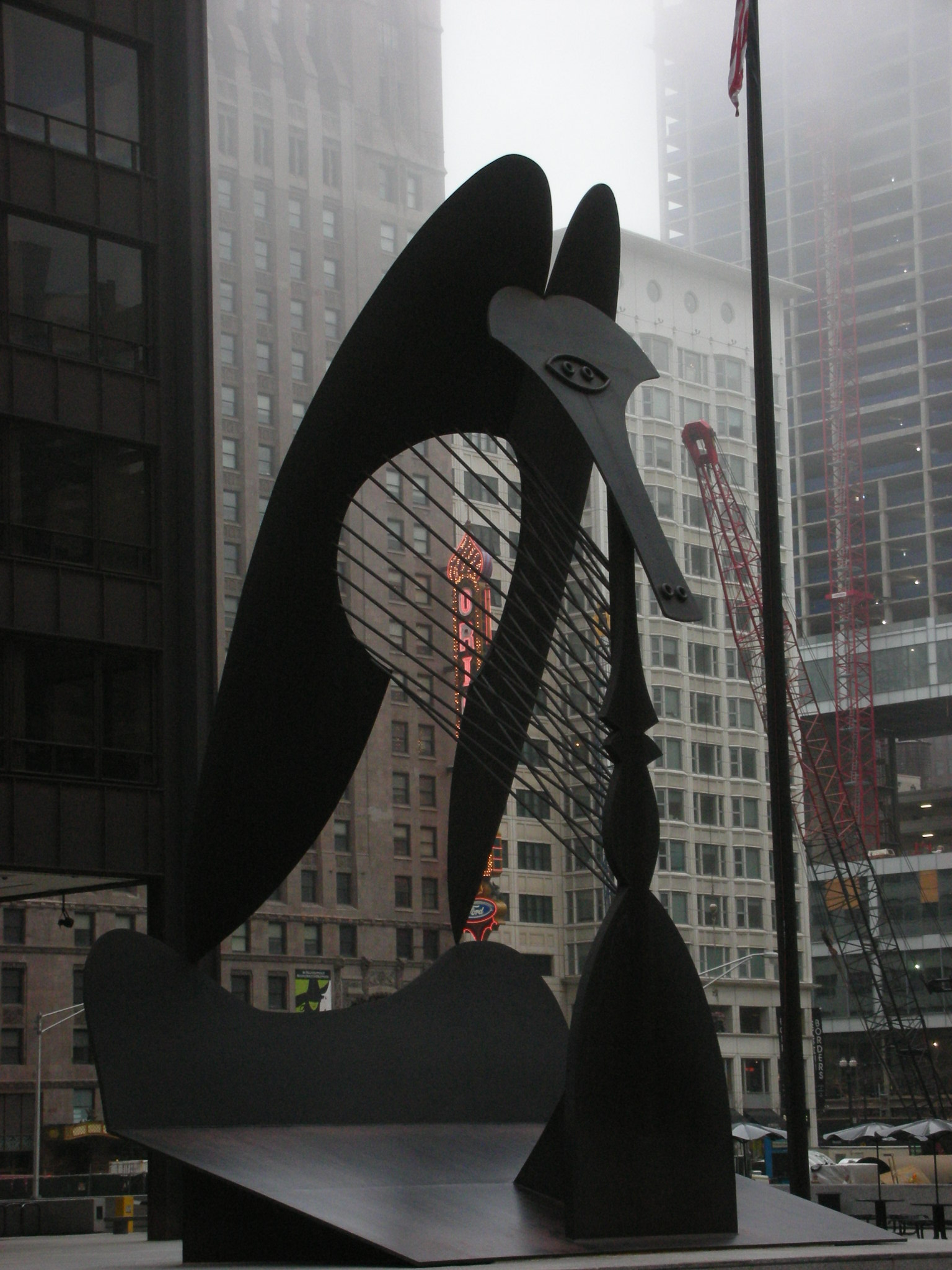 Sculpture by Picasso in front of Daley (Chicago).